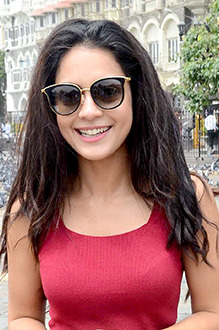 Anya Singh launch I Am India song..